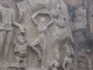 Arjuna's Yajna, Mahabalipuram